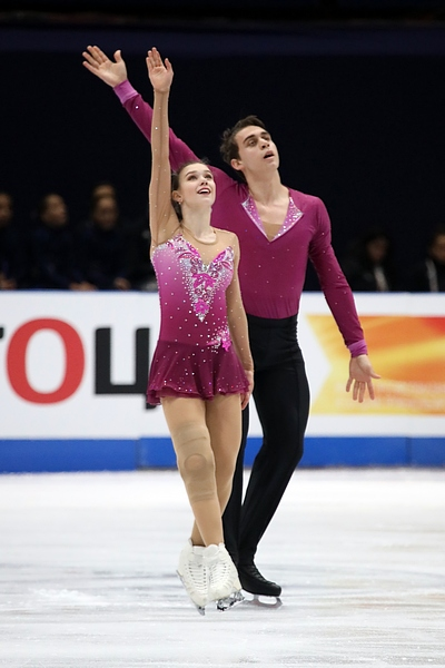 Anna Dušková and Martin Bidař - 2018 Worlds